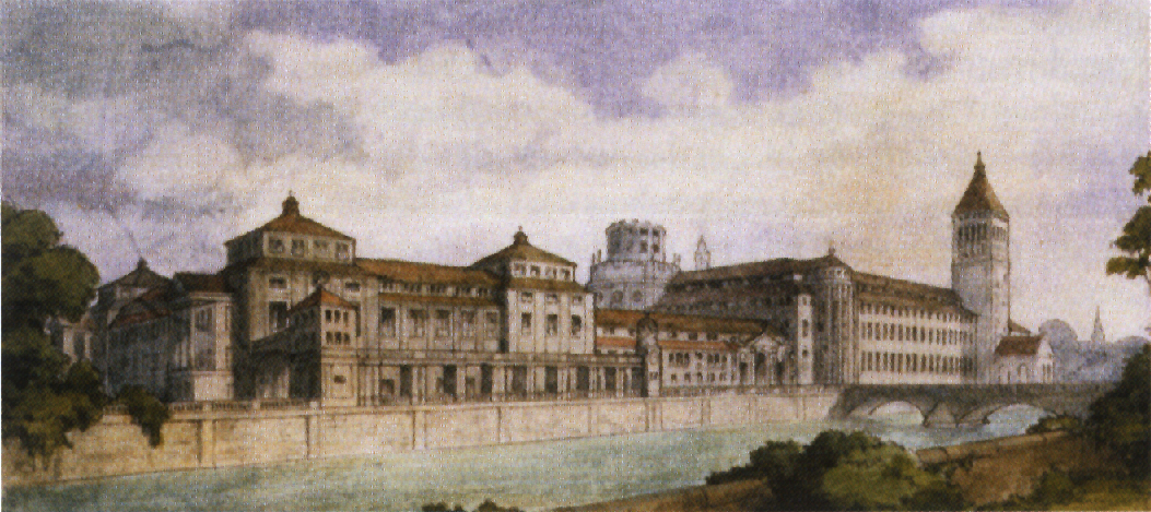 Draft of the buildings of the "Deutsches Museum" museum in Munich by Gabriel von Seidl. (1906)